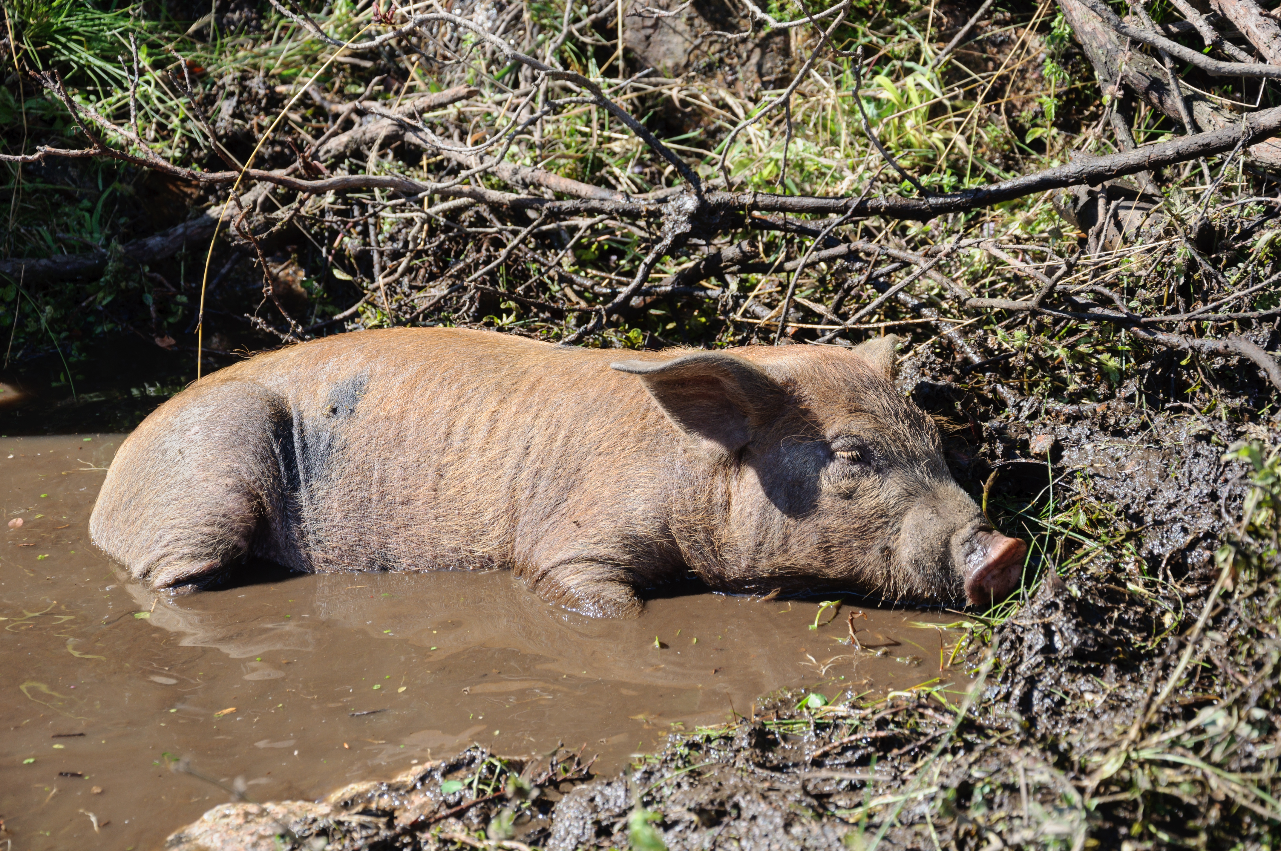 A pig (Sus scrofa domesticus) in Southern Corsica.